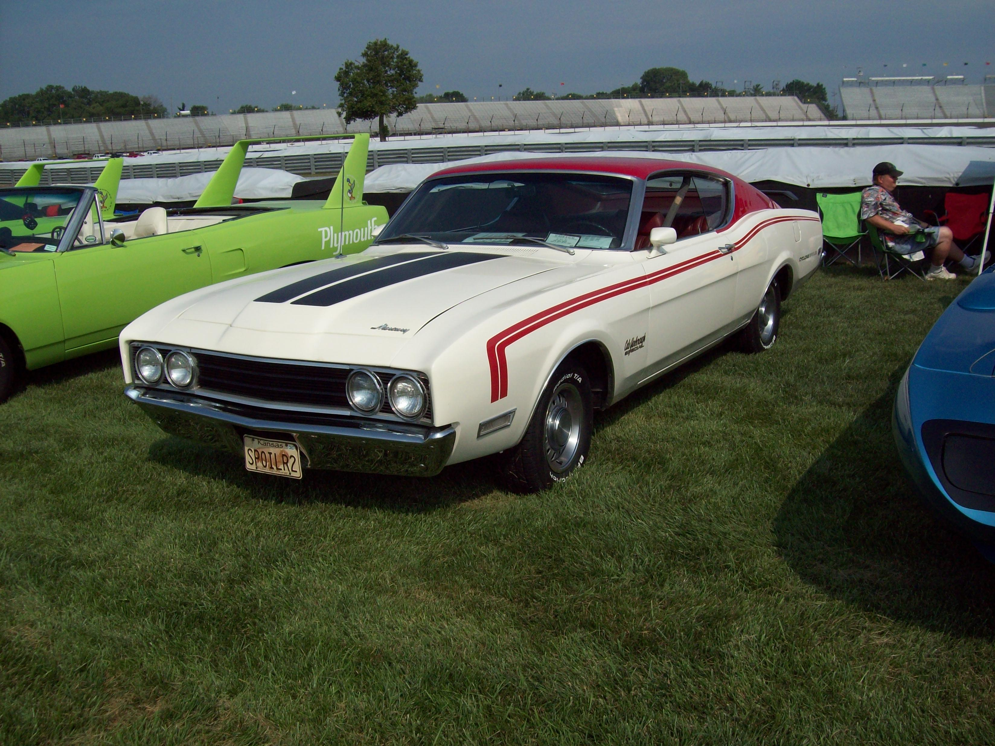 Merury Cyclone Spoiller II Cale